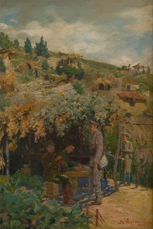 Scene from the front (circa 1912-1913)